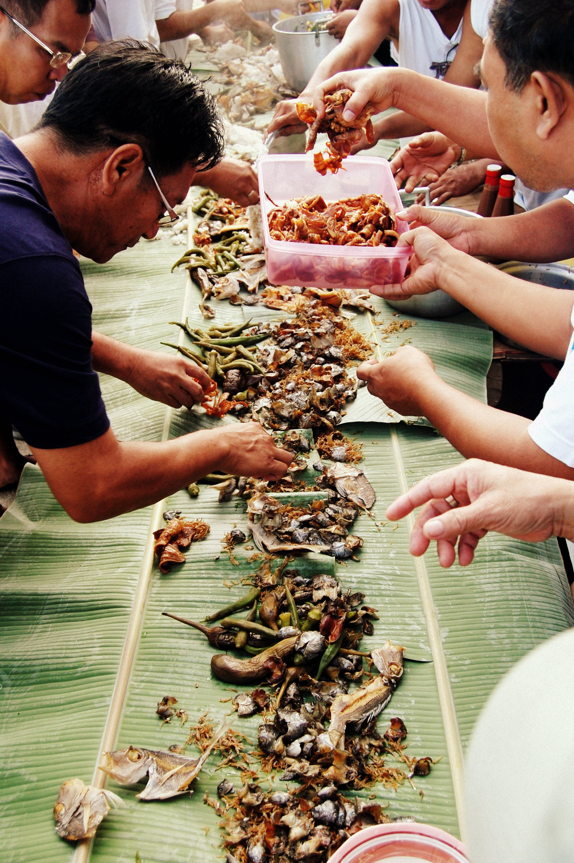 A breakfast of an assortment of daing/dried fish/squid, boiled eggplants and okra, and fried eggs with sliced fresh tomatoes shared with fellow travelers right beside the beach.